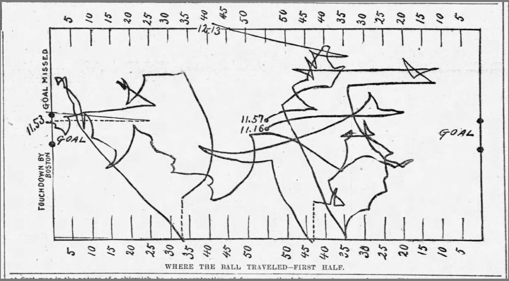 Where the ball traveled in the first half of the Chicago Athletic Association versus Boston Athletic Association football game on Thanksgiving Day of 1895.